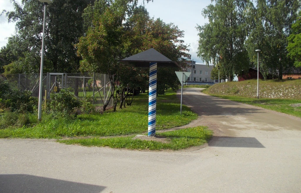 Lappeenranta garrison enter